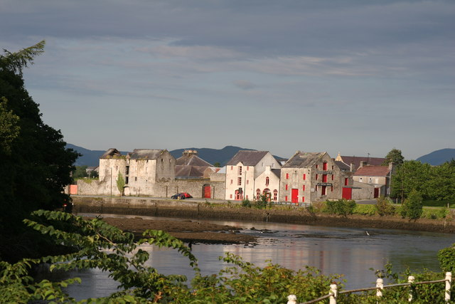 Rathmelton Old Warehouses and Film Set for 'The Hanging Gale'